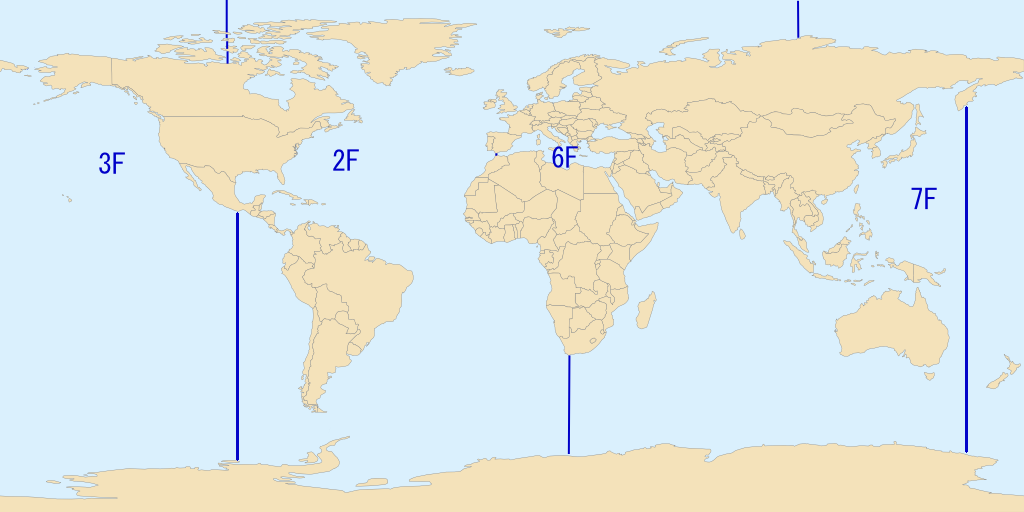 US navy fleets ares of responsibility in 1980's